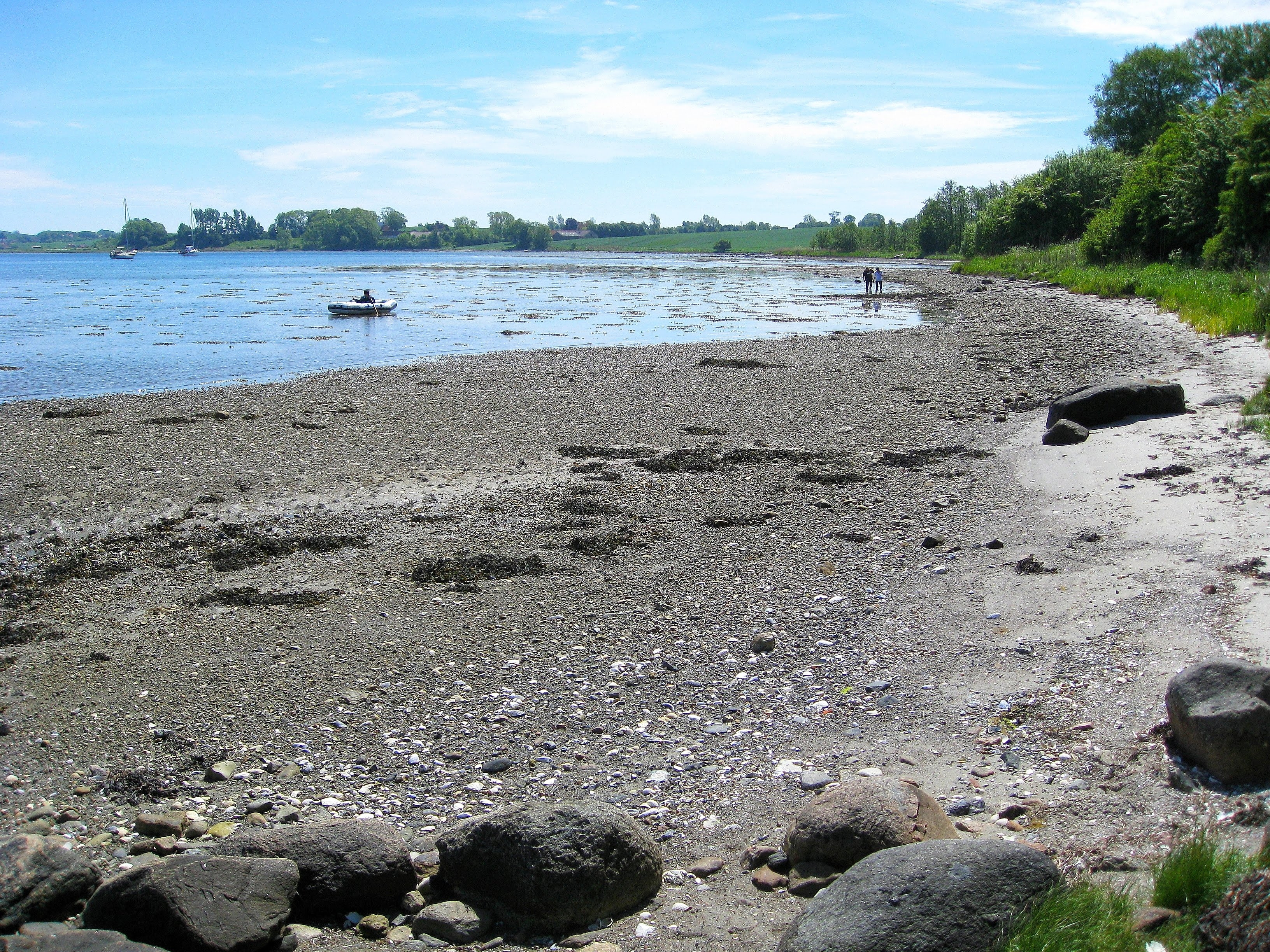 Knebel Vig lavvande